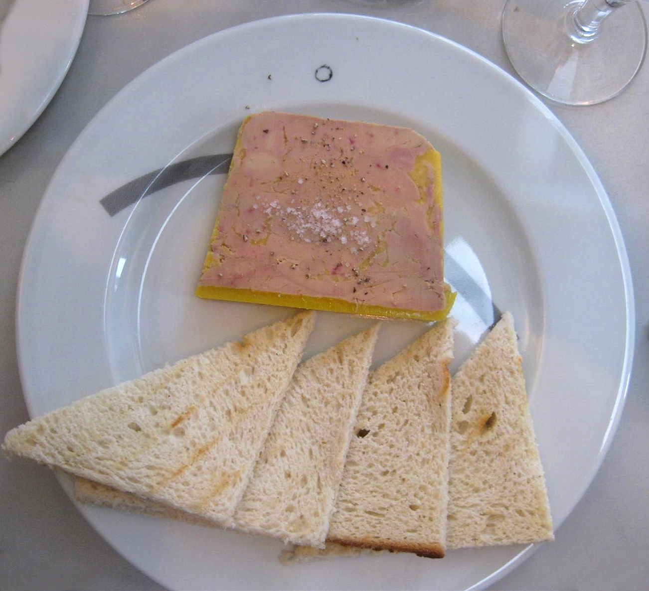 Slice of Pâté de foie gras